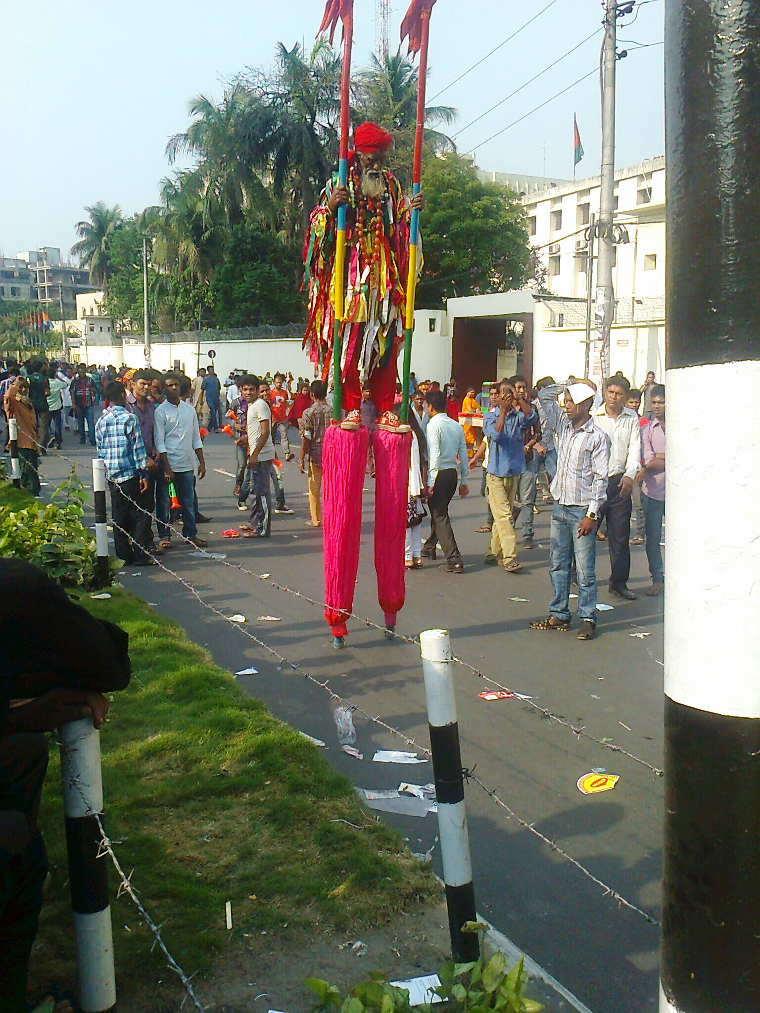 A stilt walker in front of BIRDEM, Shahbagh, Dhaka in Bengali New Year, 14 April 2014.